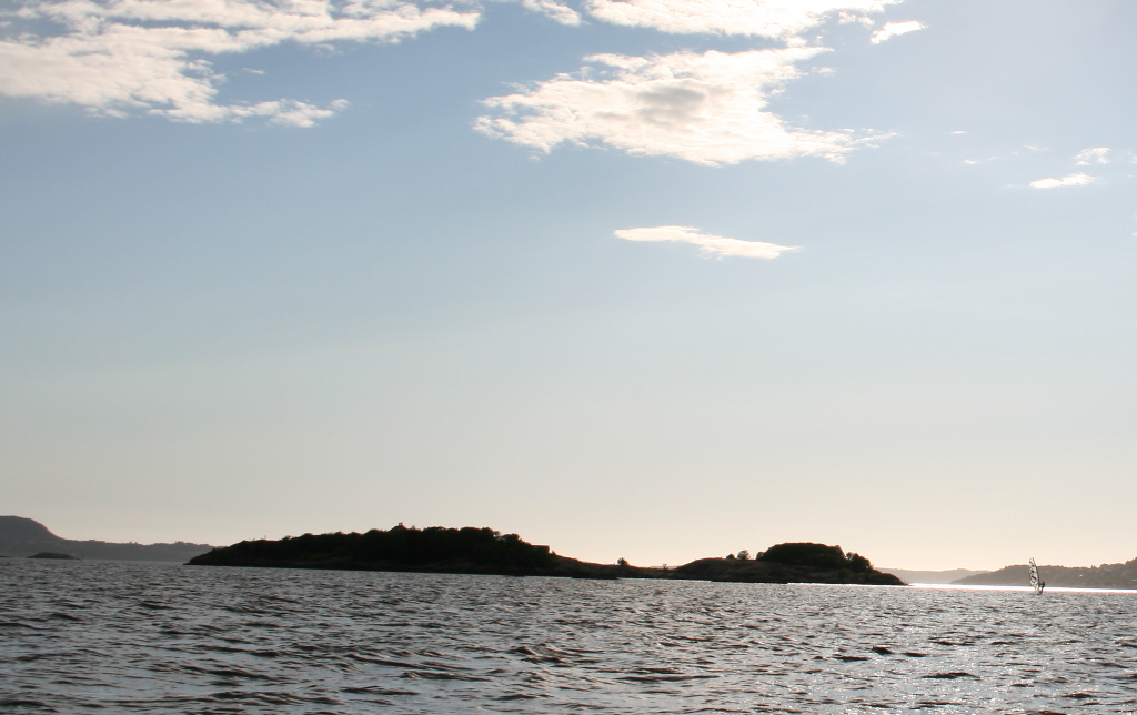 Fugløya in Kristiansund (Norway).